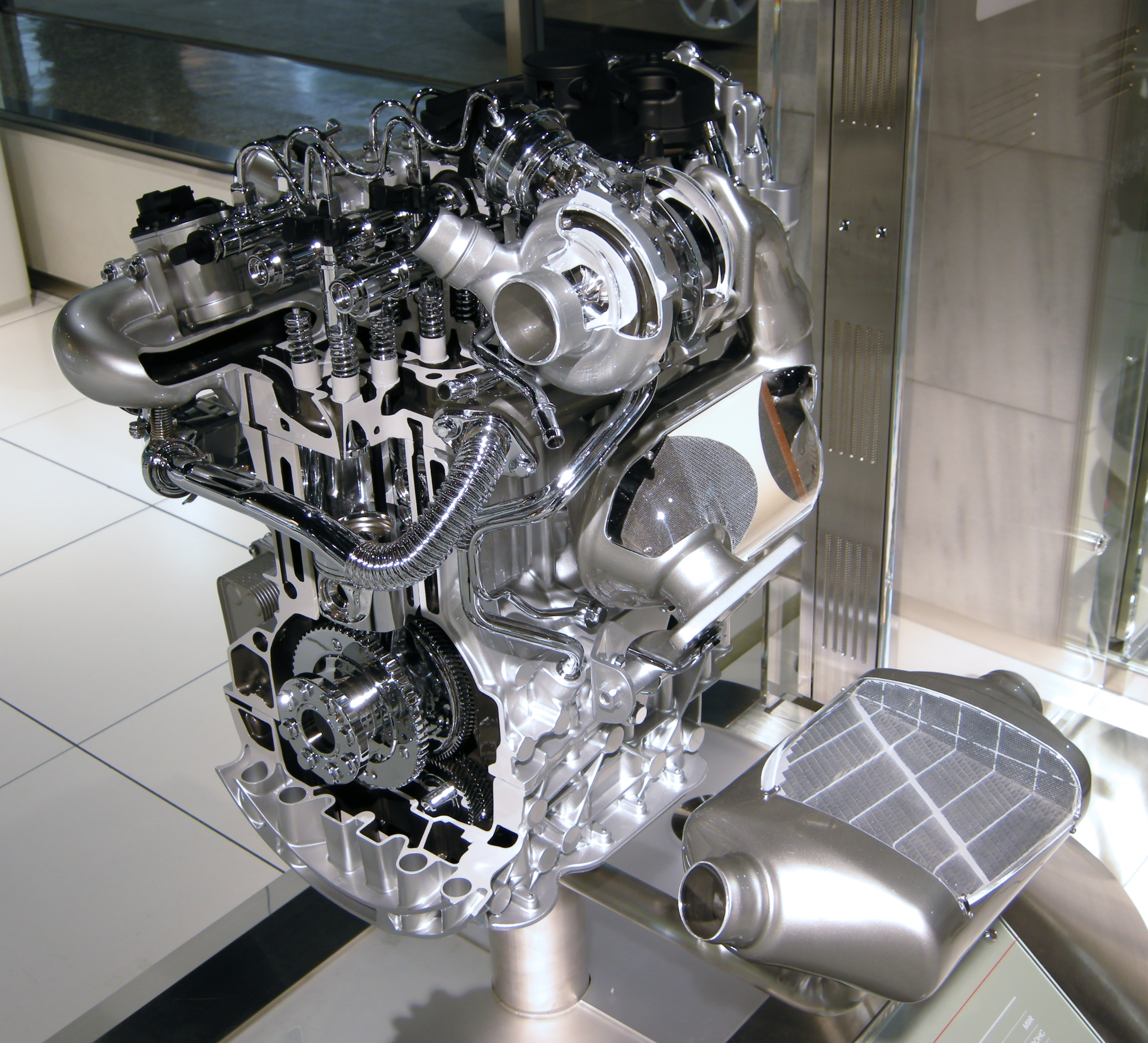 A cutaway photograph of Nissan/Renault M9R 2.0L Straight-4 DOHC Diesel Engine with piezoelectric driven Common railinjection system, turbocharger, intercooler and respective DPF (Diesel Particulate Filter installed in 2nd genaration Nissan X-trail, Renault Laguna since August 2005 or Renault Espace since April 2006. These engines are manufactured also for Nissan in the Renault engine plant in Cléon, Upper Normandy, France